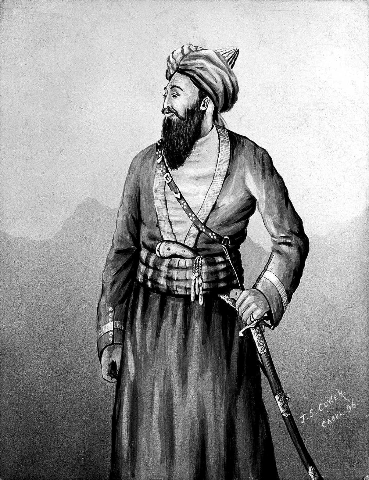 Photo of a pen and ink drawing of the Afgan Emir Dost (dhost) Mohammad (1792-1826-1839), son of Payanda Mhd. Photograph c. 1896 By: J. S. Cowen after: Lillias Anna Hamilton. From: Papers of, and relating to Lillias Anna Hamilton, M.D. Archives & Manuscripts Keywords: Costume; Portraiture; Afghanistan; Clothing; Lillias Anna Hamilton; First Afghan War; J. S. Cowen; Lillias Anna Hamilton